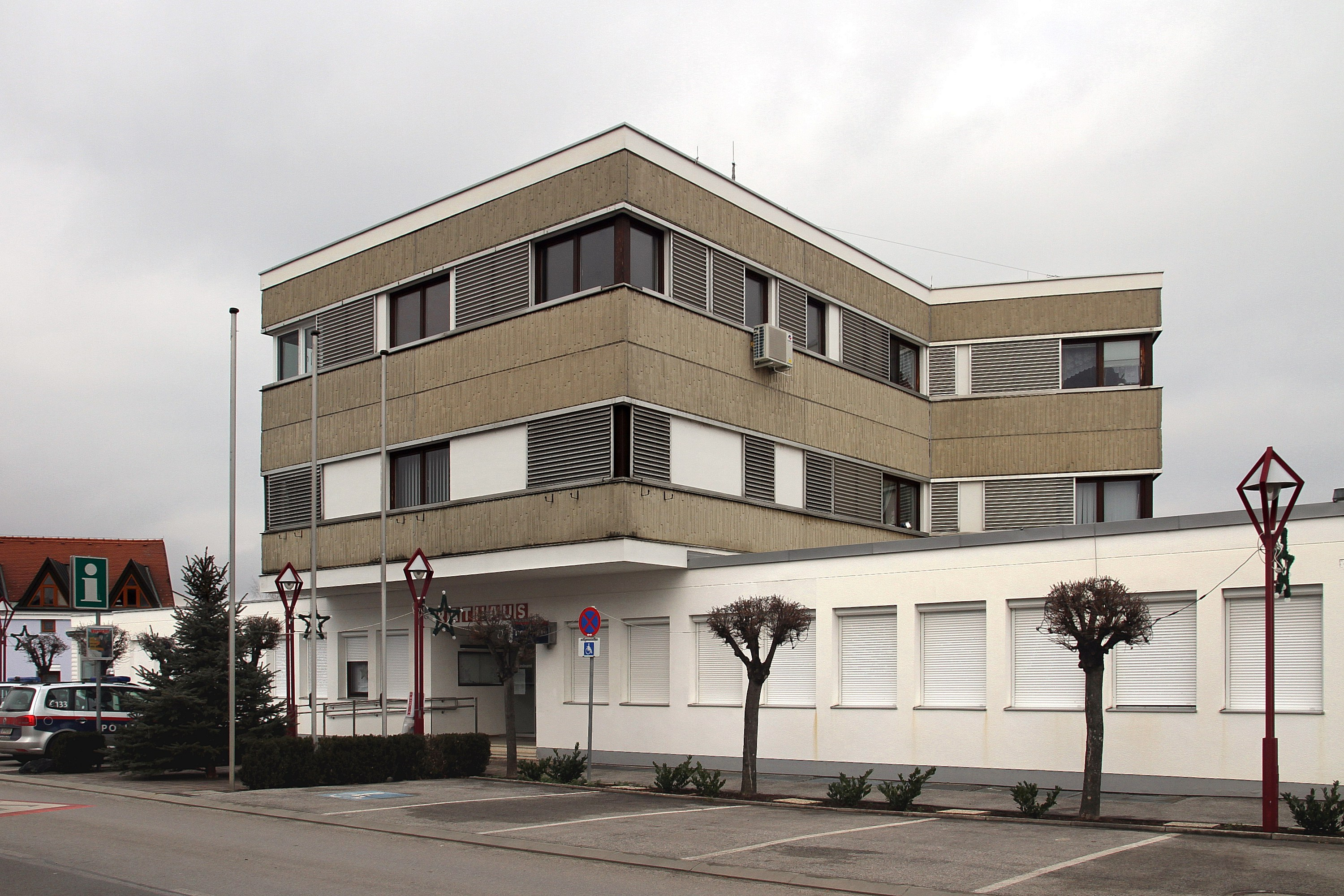 Deutschkreutz - municipal office